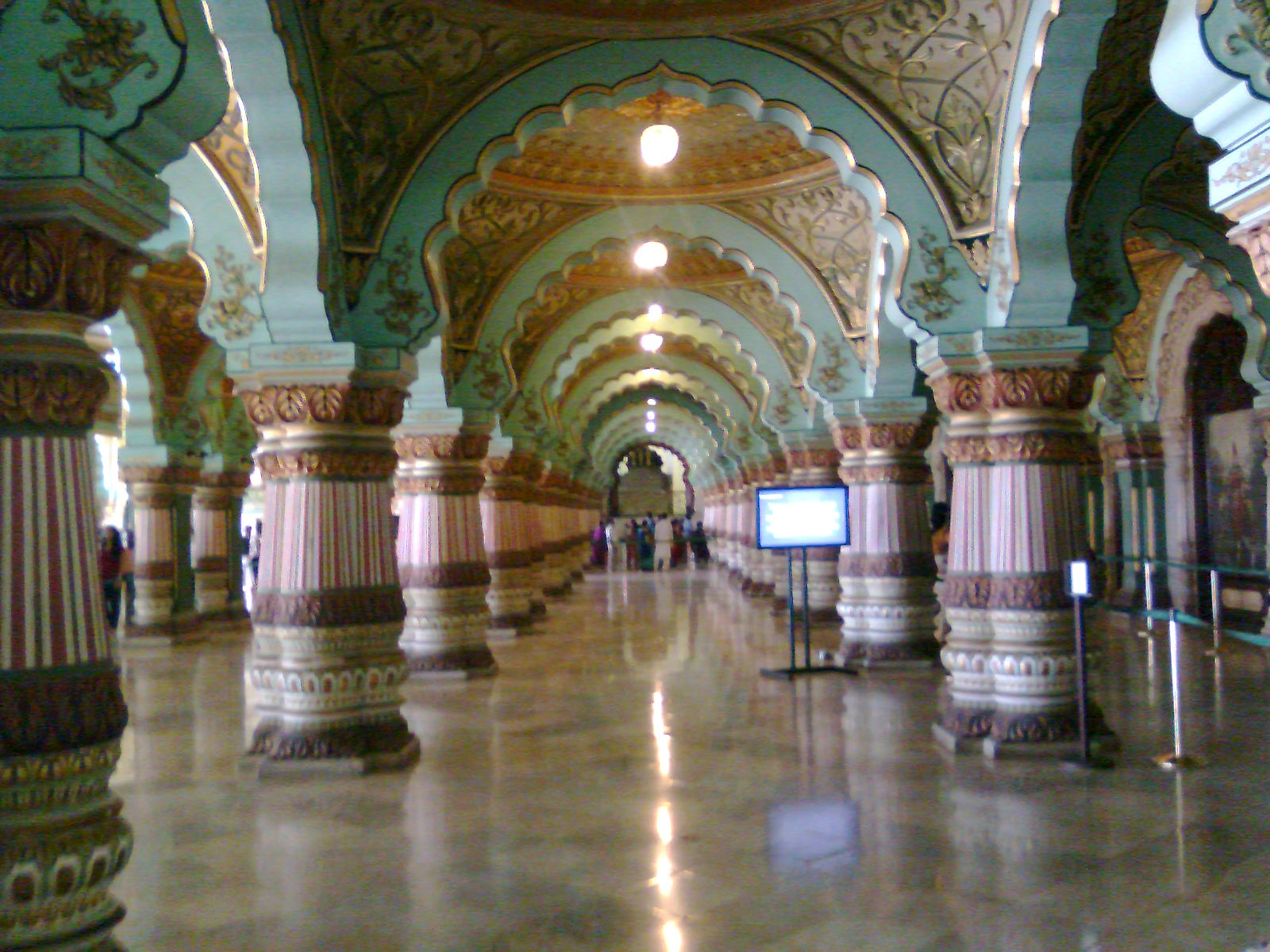 mysore palace gallery